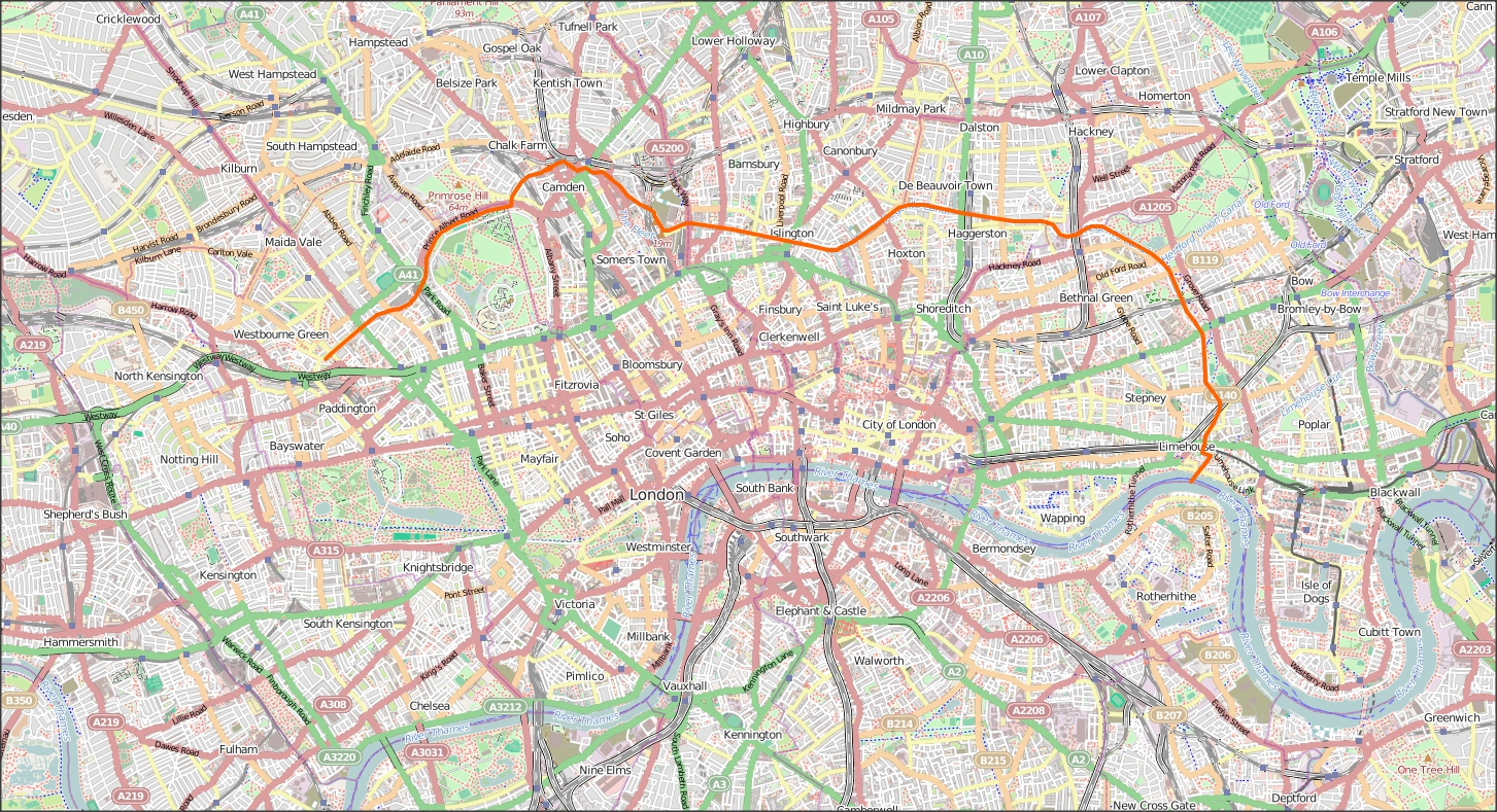 Map of the route of the Regent's Canal in London